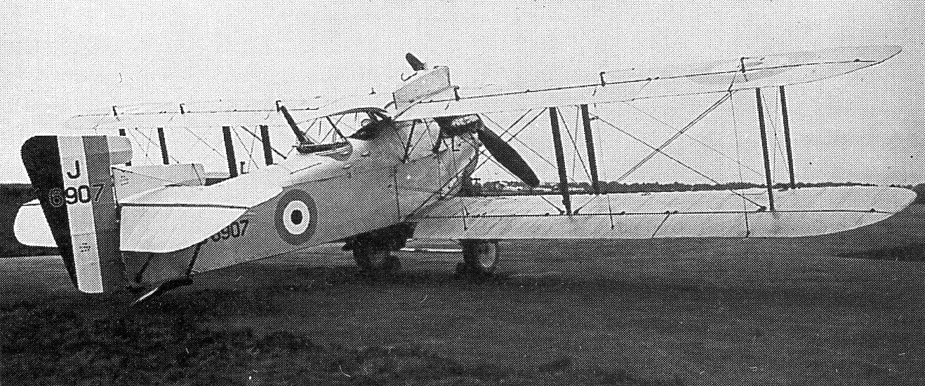 Fairey Fawn J6907, April 1923, showing short fuselage and gravity fed fuel tank